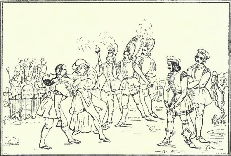 Scene from the 4th act of Lucia di Lammermoor by Gaetano Donizetti at the Royal Theatre in Stockholm, ca 1840. After a drawing by John Arsenius. From left to right: Pehr Adolf Wennbom, Julius Günther, Fredrik Kinmansson, Giovanni Belletti and Fredrik Habicht. Image from Nils Personne: Svenska Teatern VIII (1927).